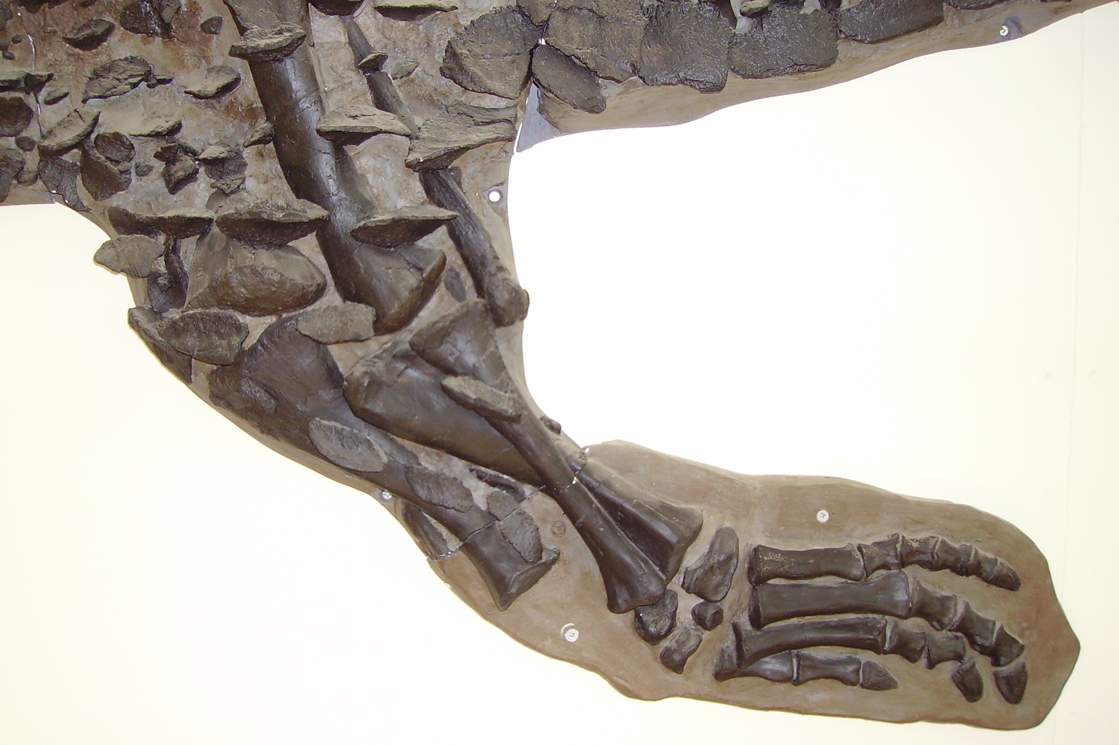 Scelidosaurus hind limb from the Charmouth Heritage Coast Centre, Charmouth, England